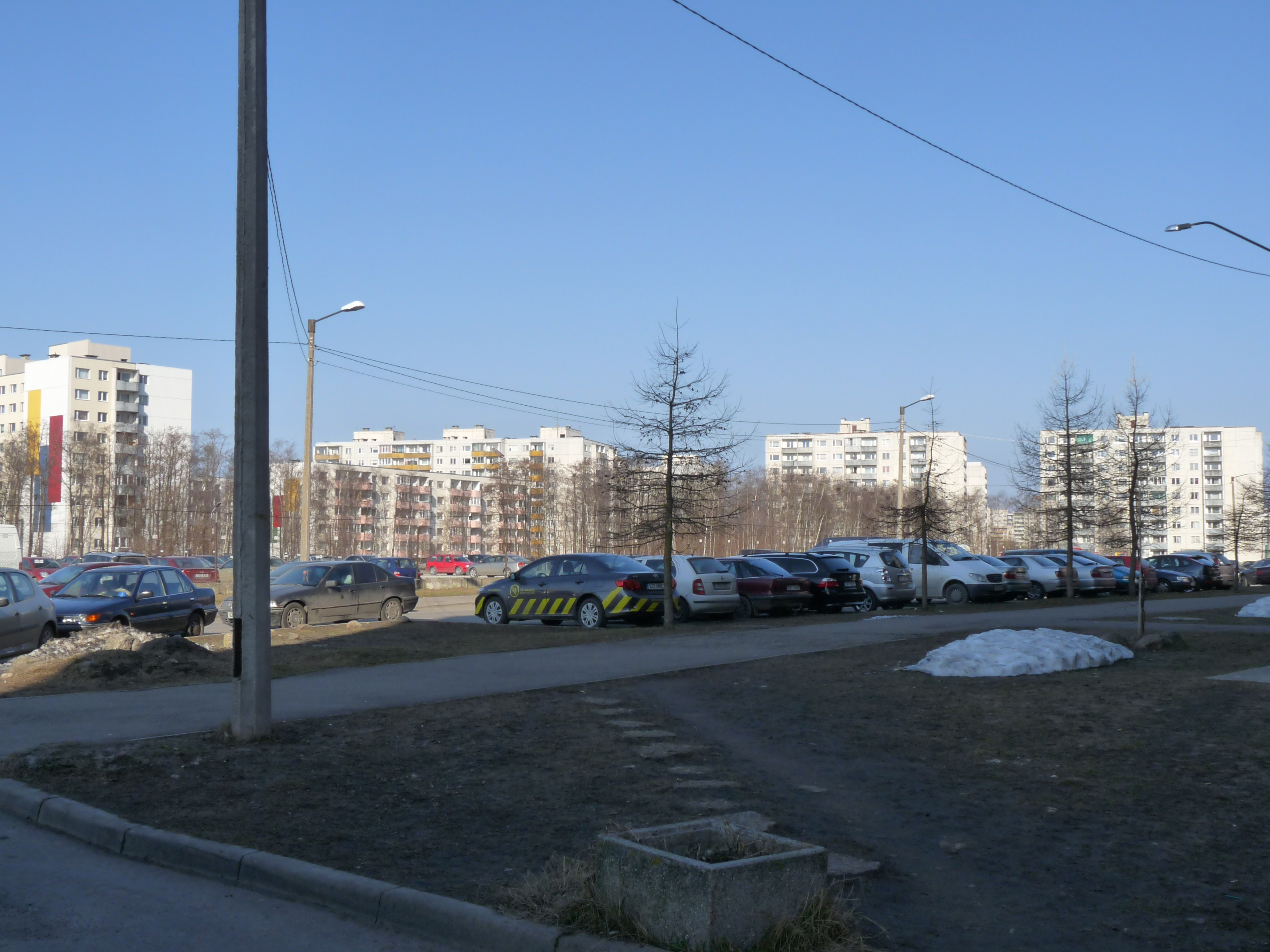 Katleri quarter in Tallinn